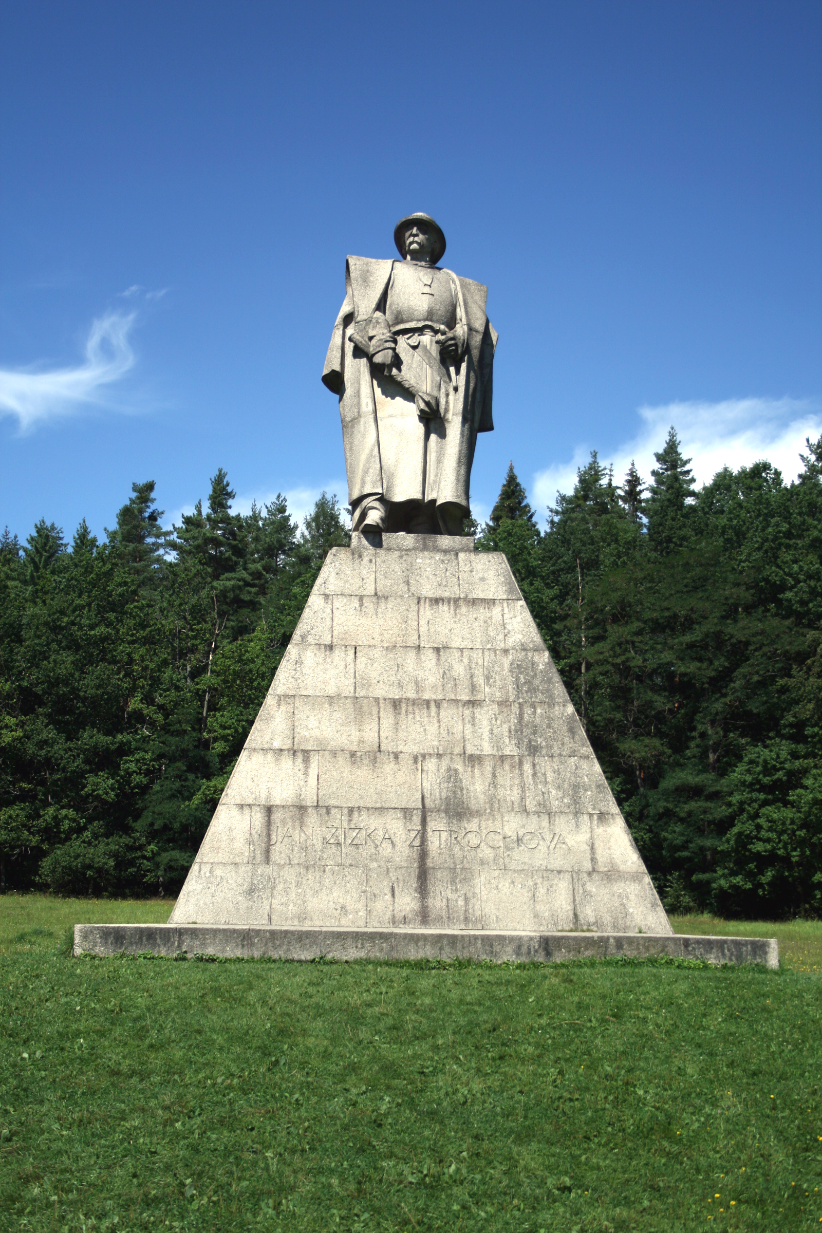 Monument of commander of Hussite army Jan Žižka near Trocnov, South Bohemia, Czech Republic, academically sculptor Josef Malejovský (granite of Liberec), 1960